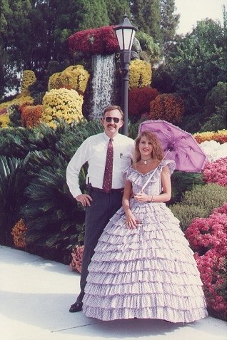 Cypress Gardens Florida - Mr. Bill Reynolds with Southern Belle - Nov 1991 Photo by Alan C. Teeple User:ACT1